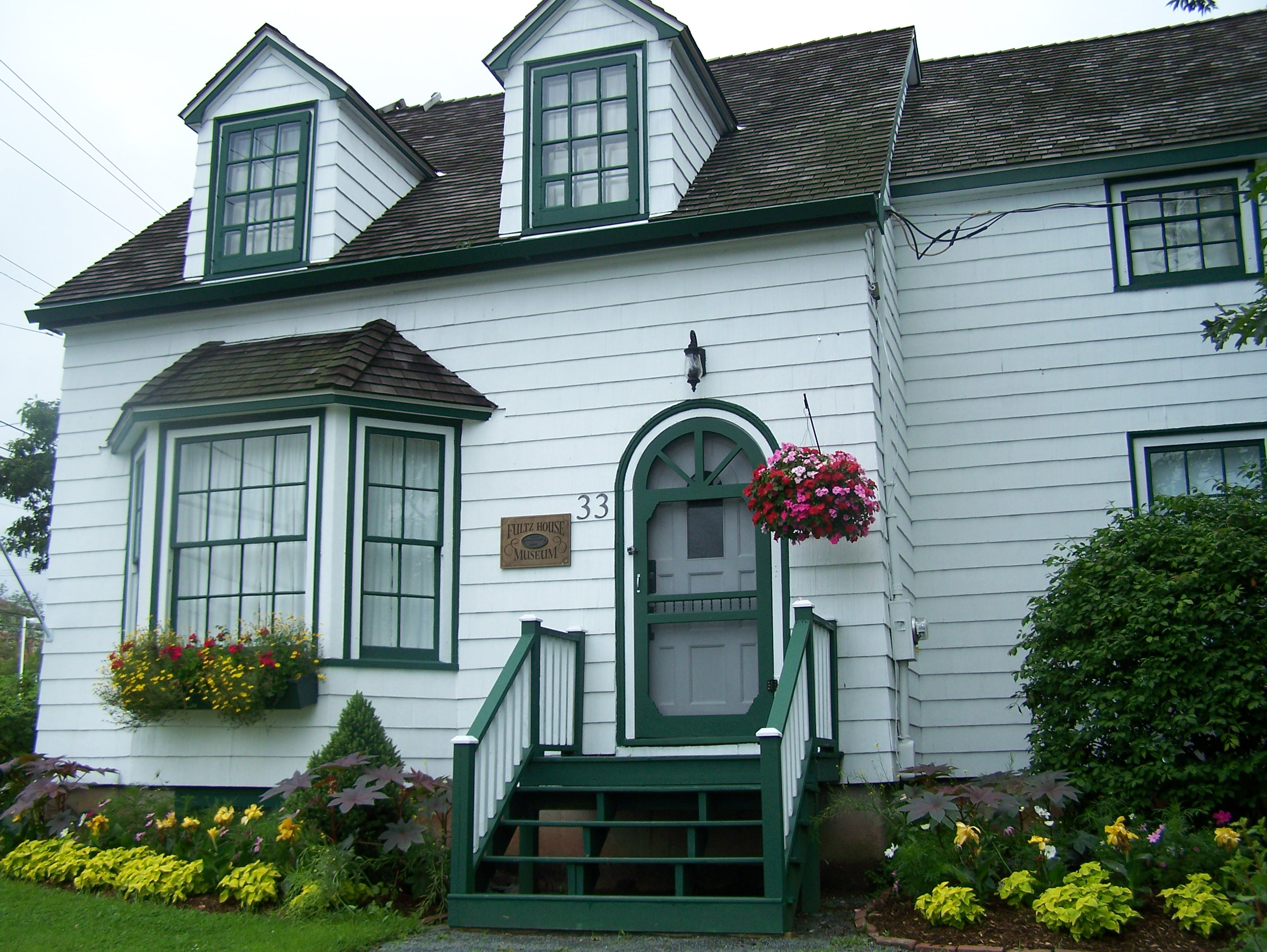 Taken July 28th 2008 from the rock wall surrounding the Fultz House Property with a Kodak EasyShare Z650.